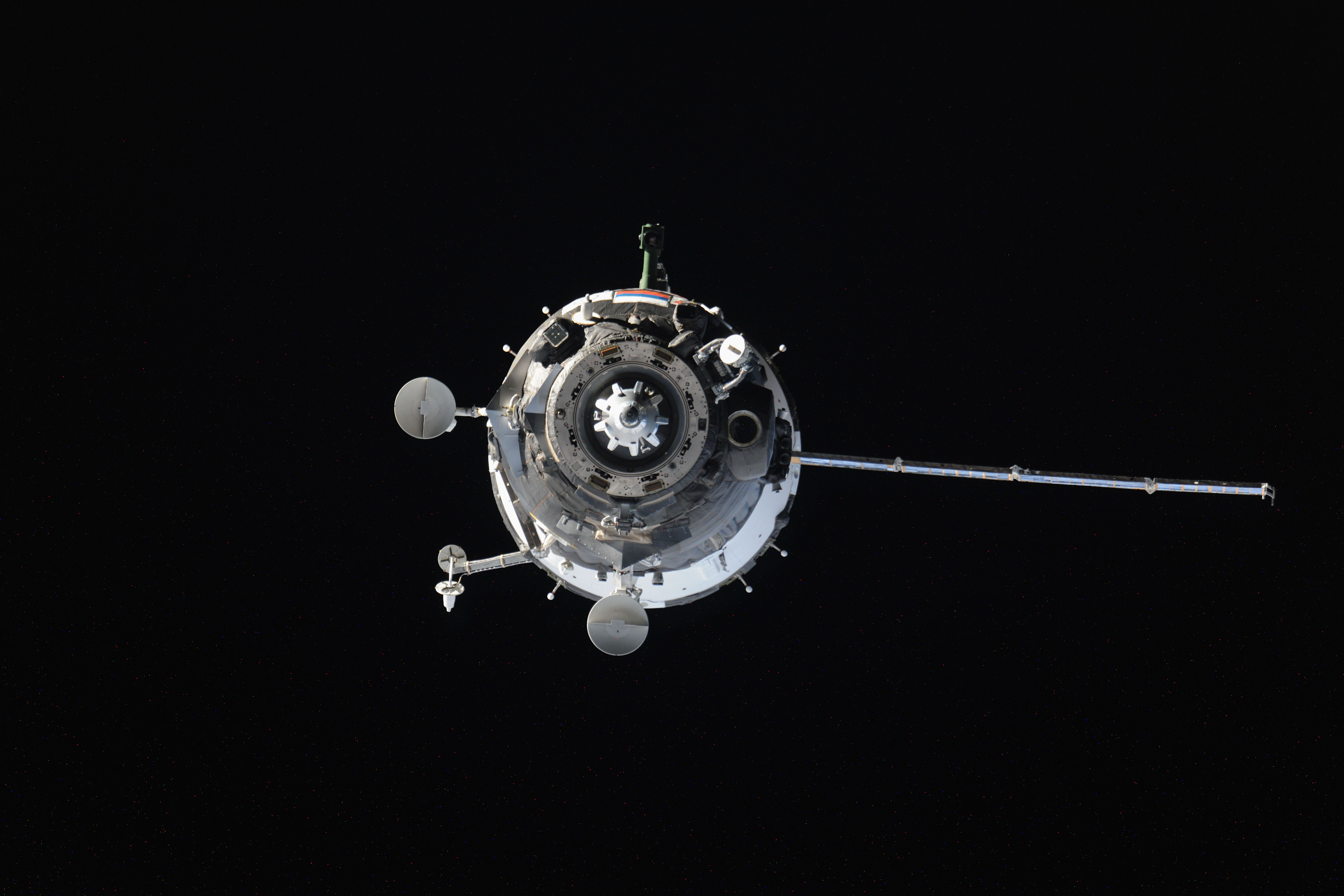 The Soyuz TMA-14M spacecraft approaches the International Space Station, carrying Expedition 41 Soyuz Commander Alexander Samokutyaev, NASA Flight Engineer Barry Wilmore and Russian Flight Engineer Elena Serova. The Soyuz safely ferried the trio to the station's Poisk Mini-Research Module 2 (MRM2) despite a port solar array that wouldn't deploy until after its docking on Sept. 25, 2014.